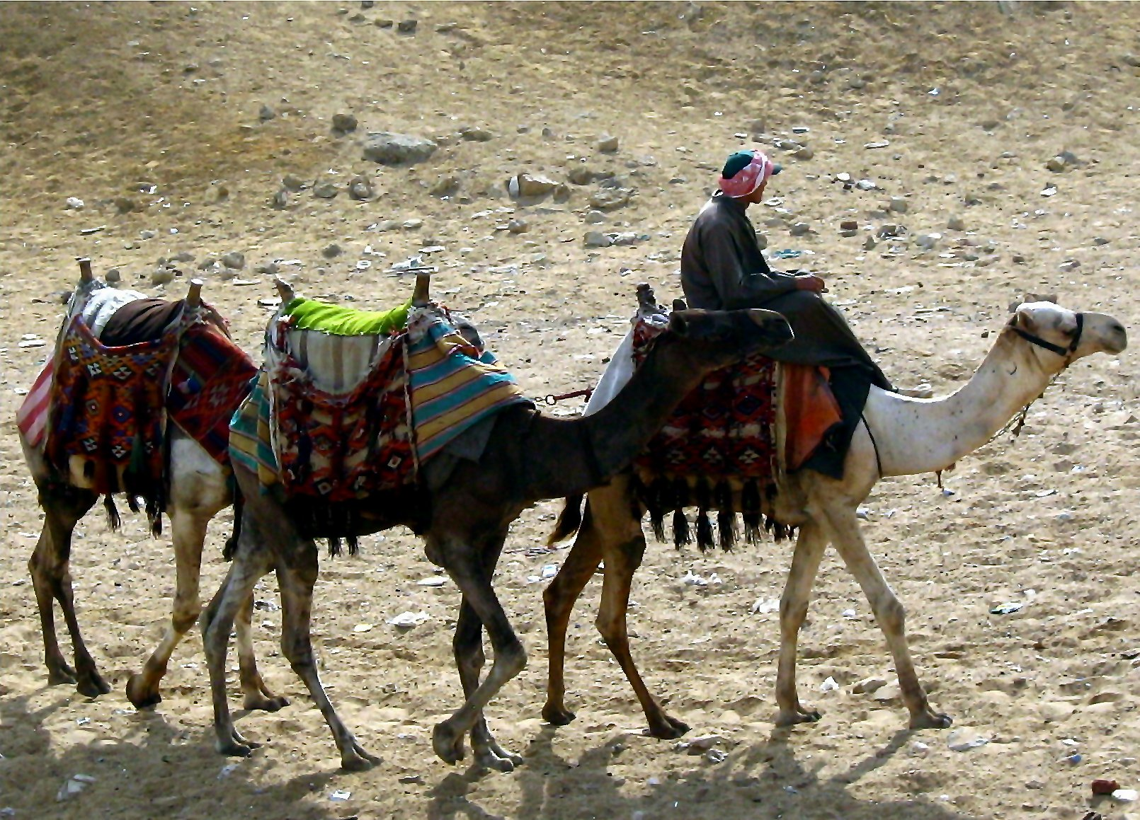 Domesticated Egyptian camels at the Pyramids of Giza